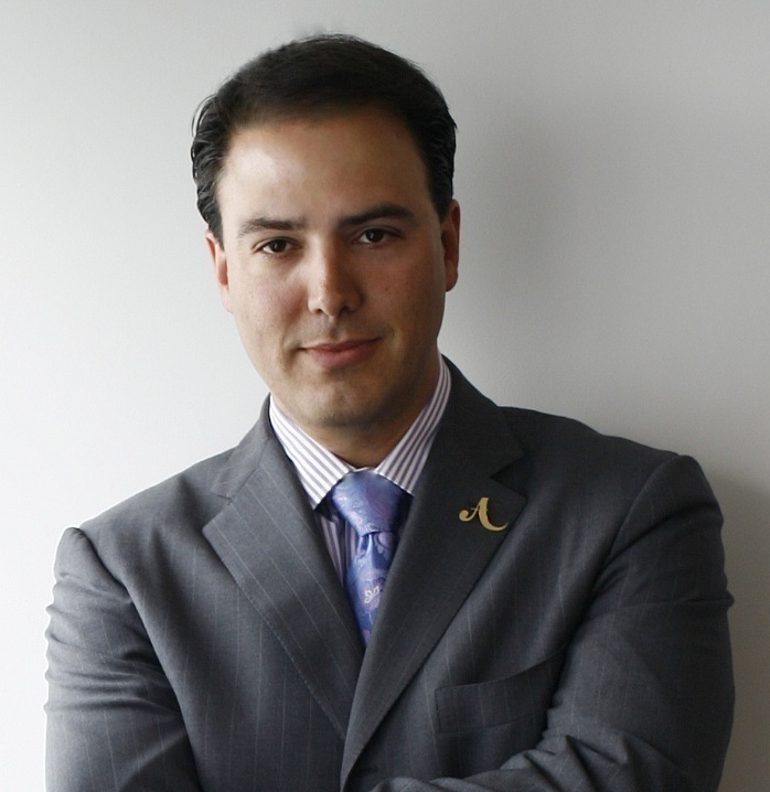 Antiquorum